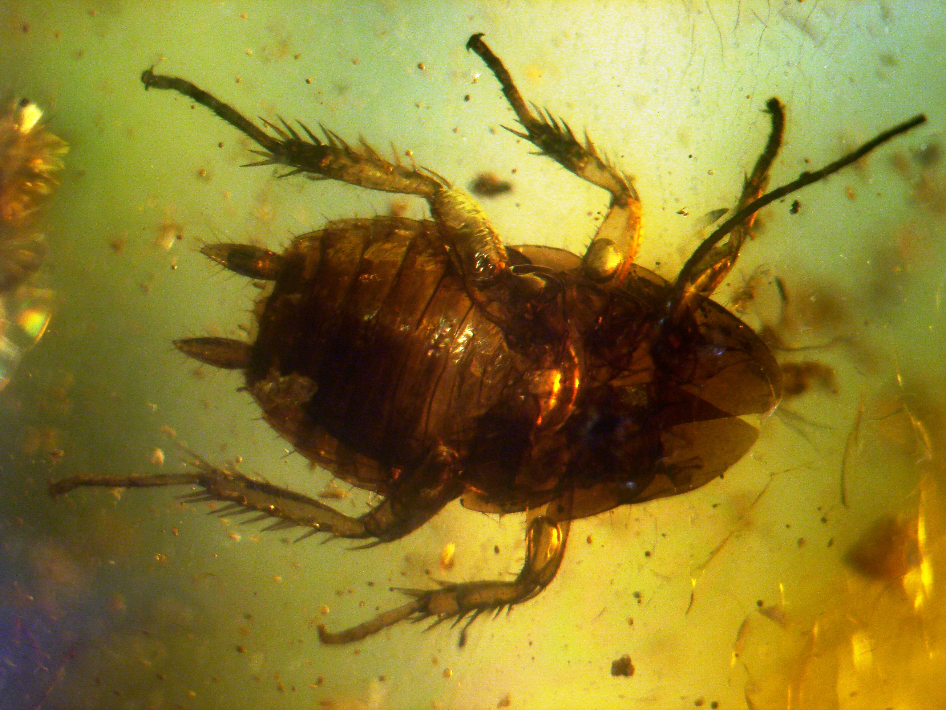 Baltic amber inclusions - 40-50 million years old - Cockroach exuvia (Pterygota, Neoptera, Dictyoptera, Blattodea). about 4,5 mm long (without the legs)